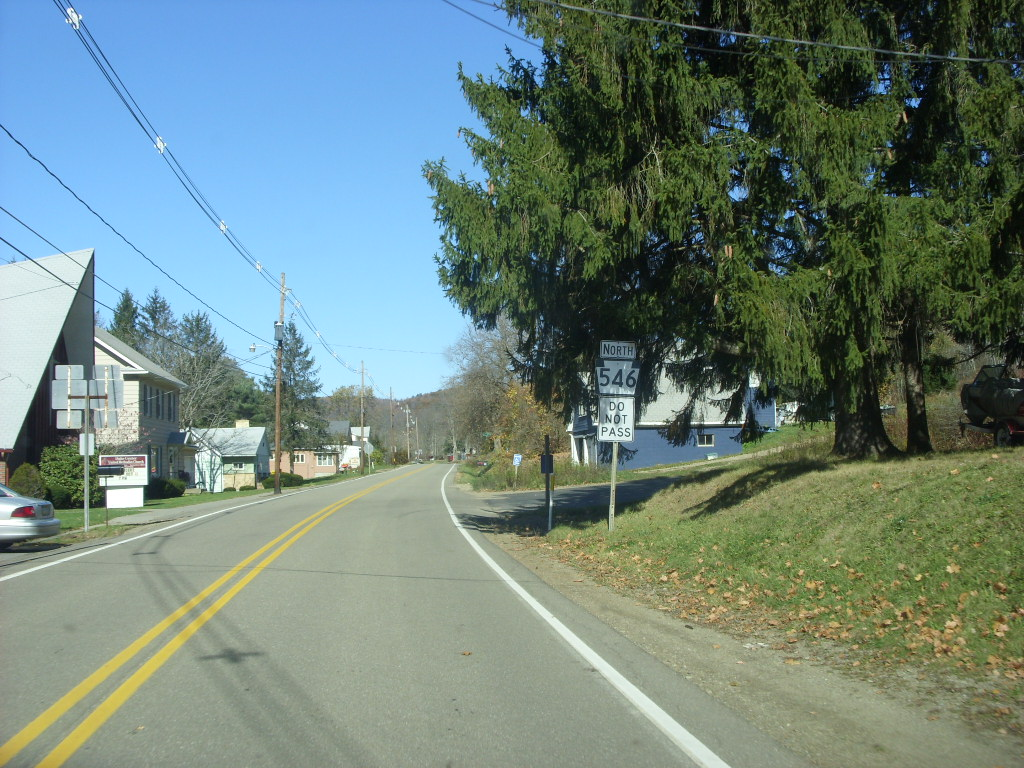 Pennsylvania State Route 546 heading northward from the junction with State Route 346 in downtown Duke Center, Pennsylvania. Signage for Route 346 is visible heading in the other direction.